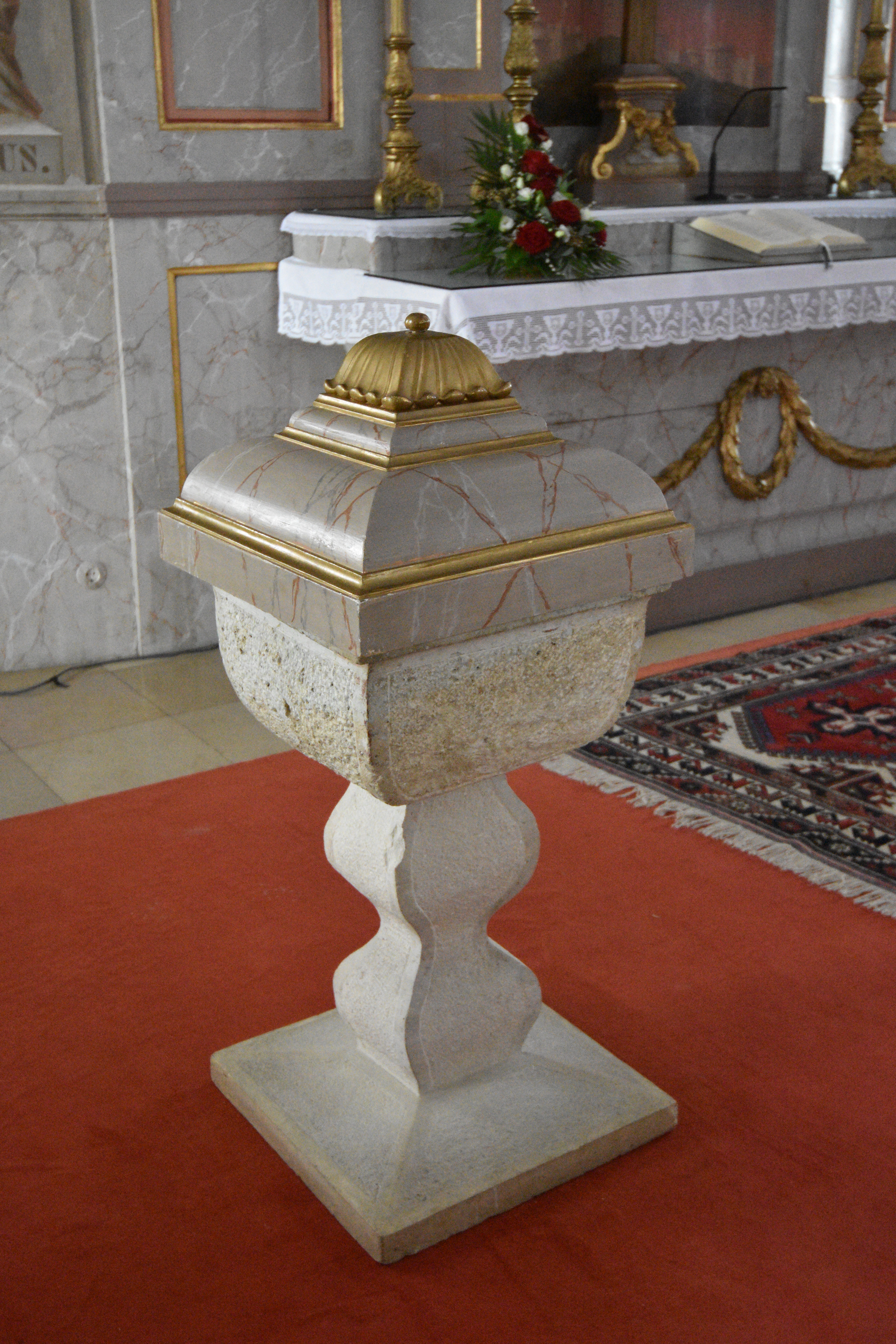 Church Evangelische Pfarrkirche Markt Allhau - Interior